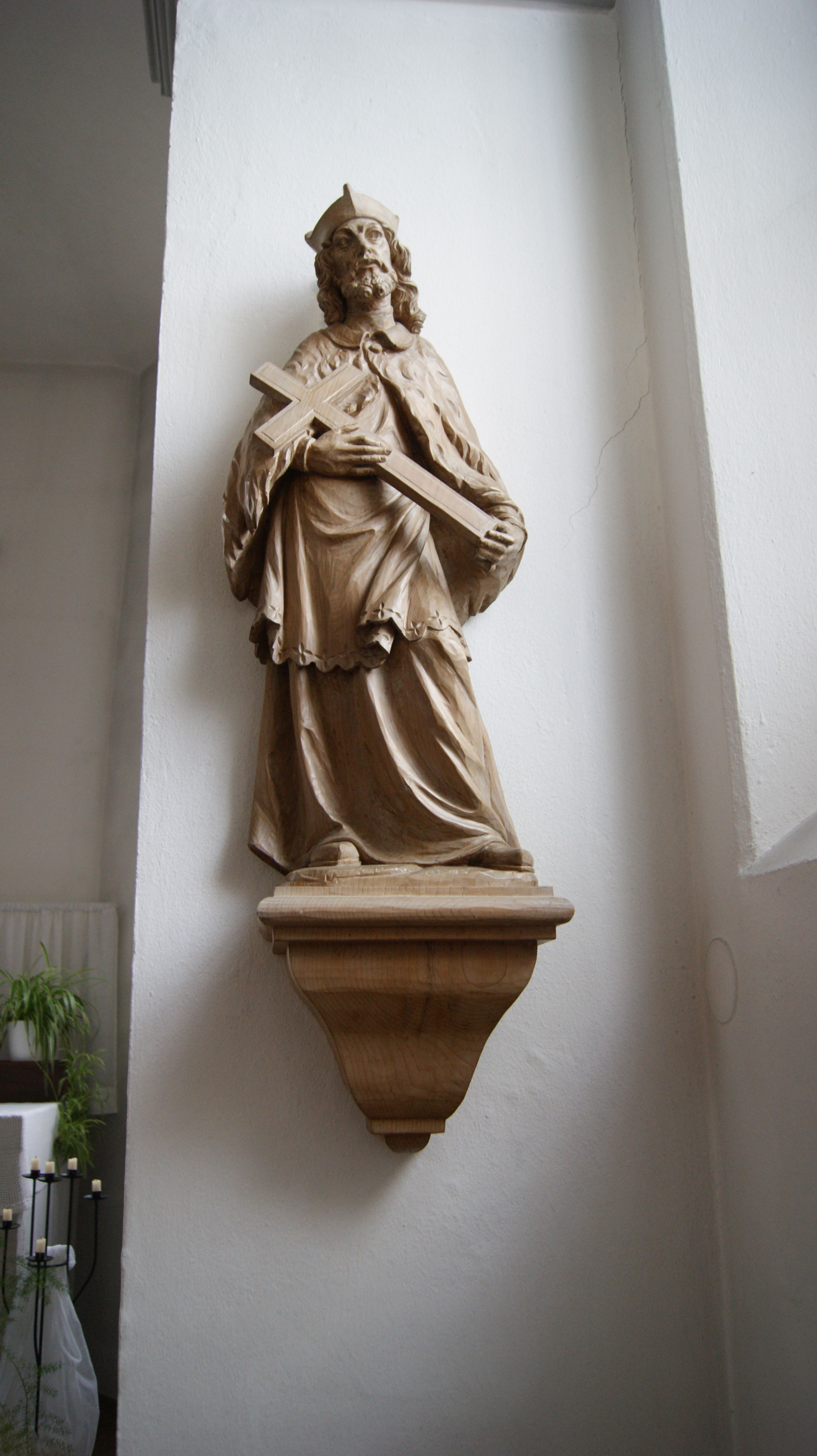 Chapel of St. John Nepomuk in "Bauern", in Hohenems. Statue of Saint Nepomuk.